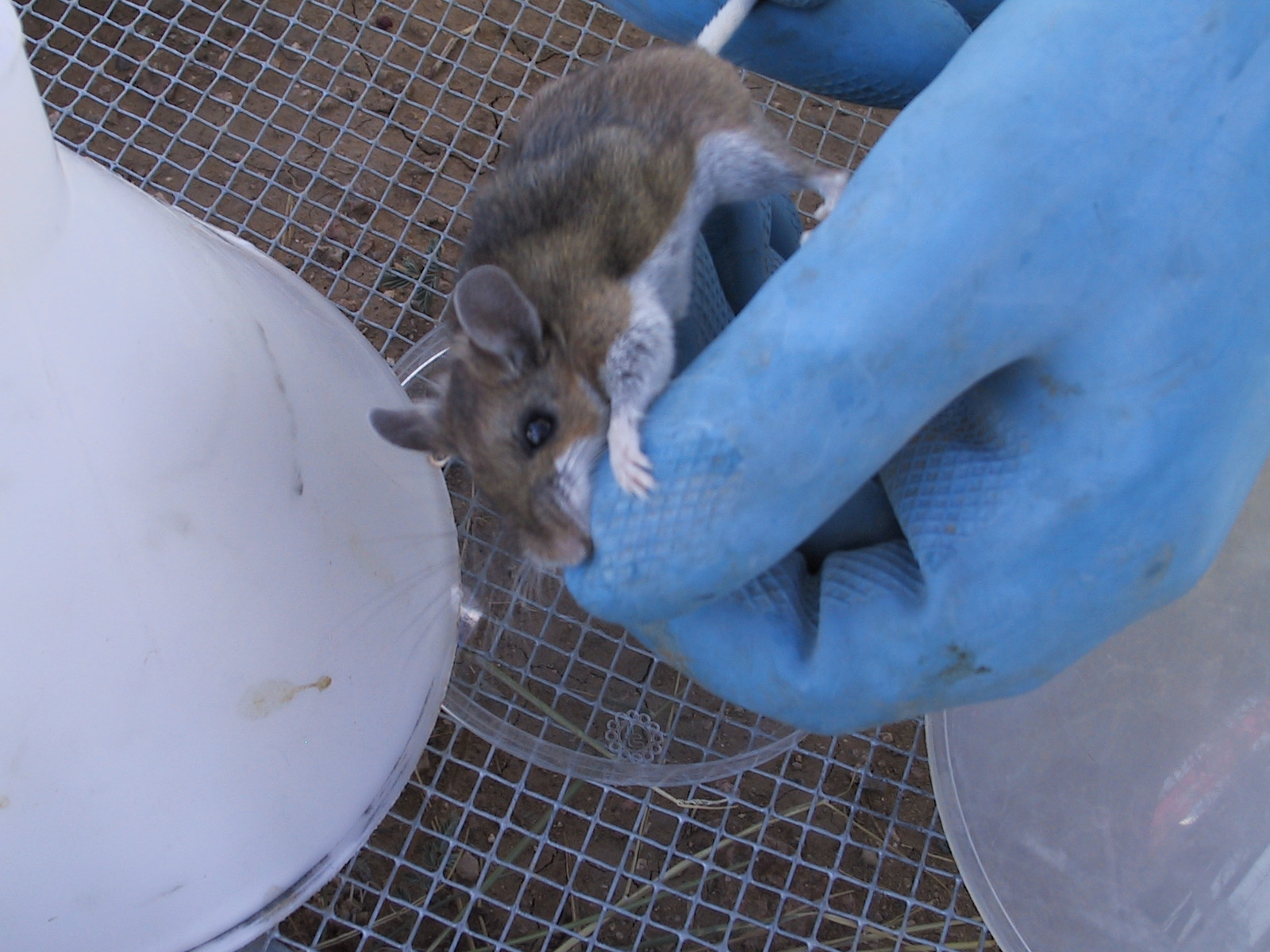 Obtaining urine from a hantavirus-infected deer mouse (Peromyscus) in New Mexico, USA.